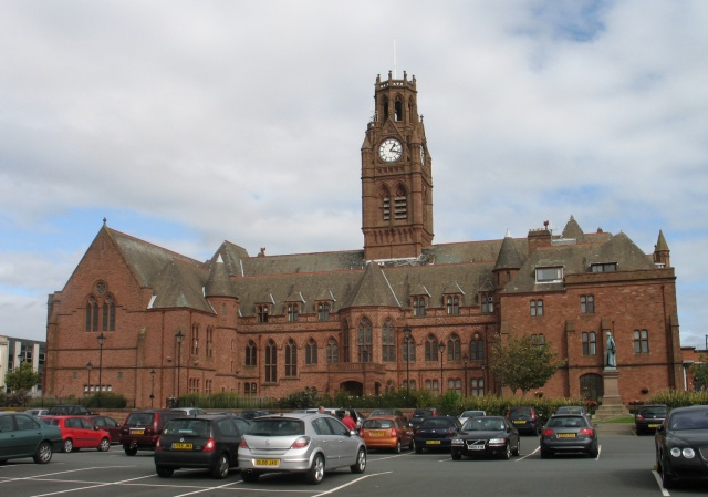 Barrow-in-Furness Town Hall, Cumbria, England, UK